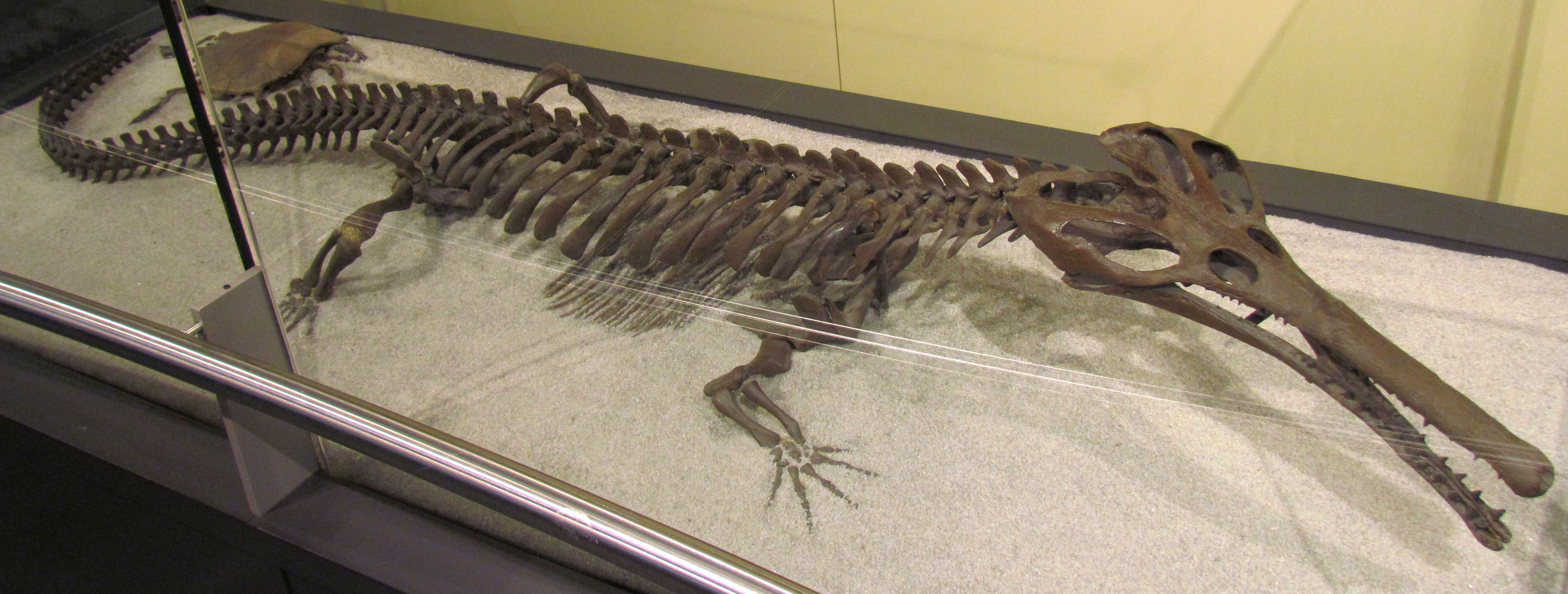 Champsosaurus natator at Canadian Museum of Nature, Ottawa, Ontario